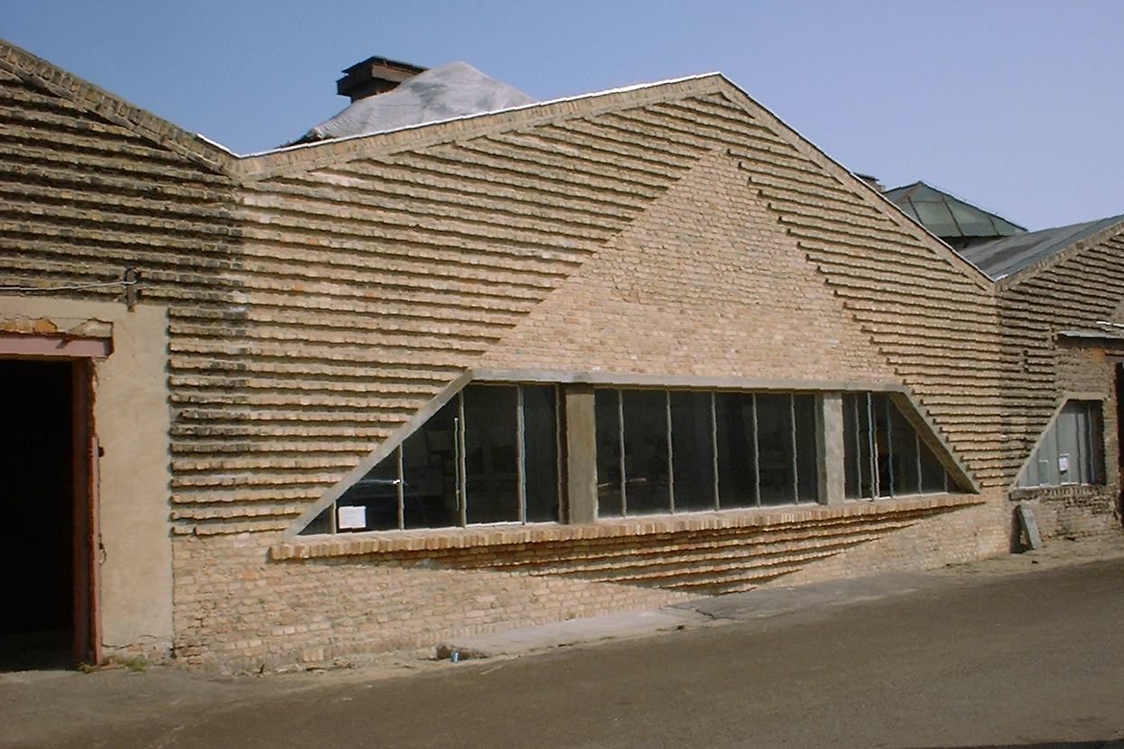 Façade, hat Factory Friedrich Steinberg Herrmann & Co.